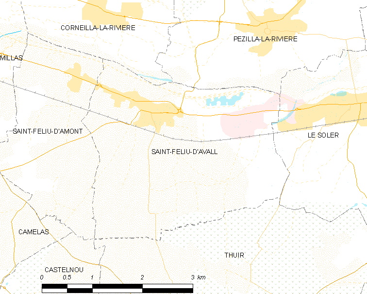 Map of French municipality